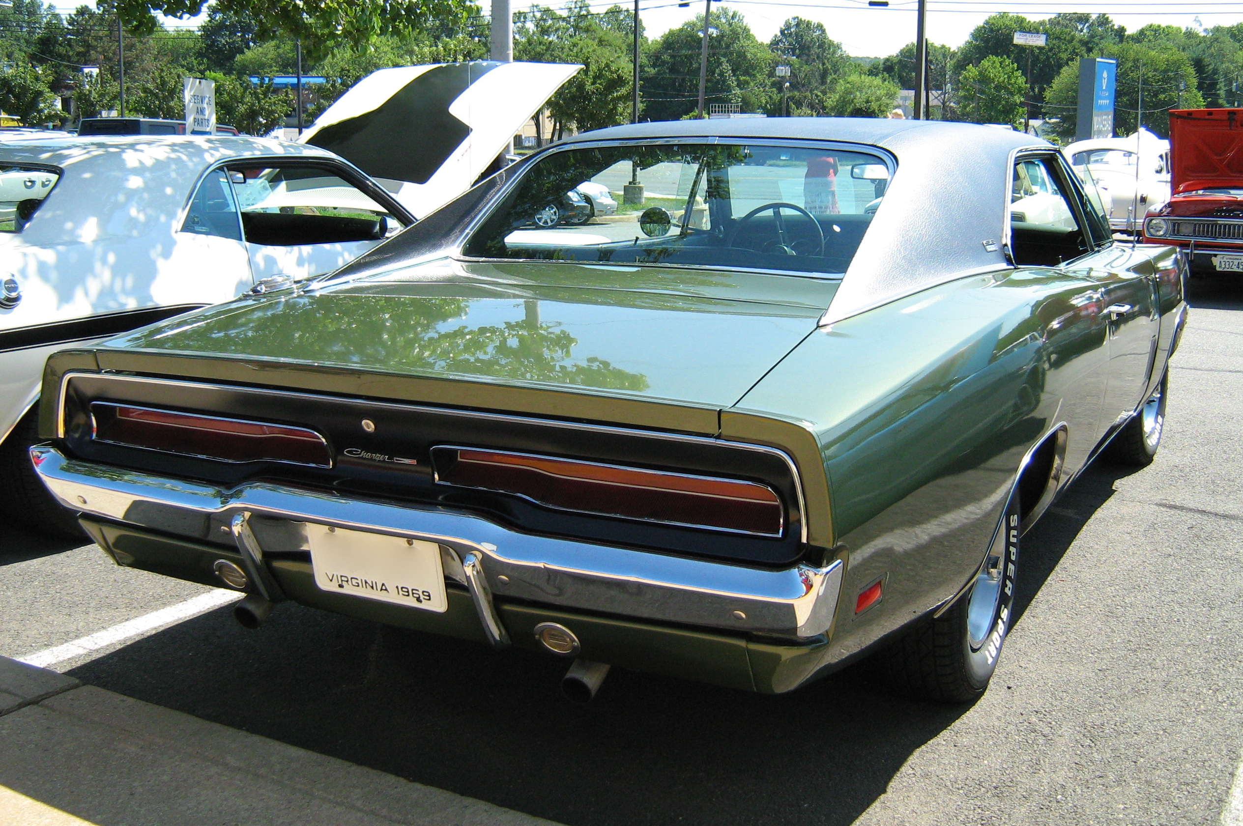 1969 Dodge Charger 2-door hardtop - rear